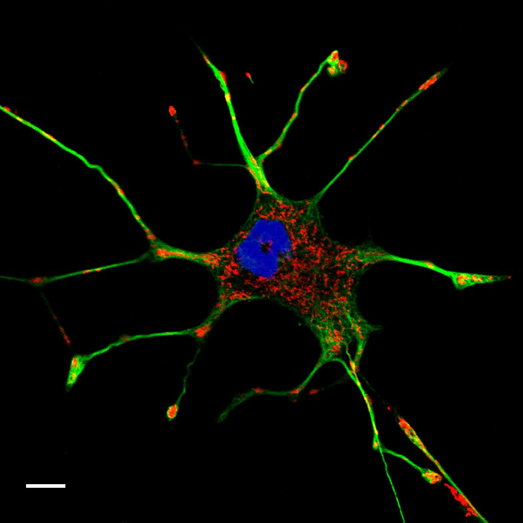 Confocal image (cLSM) of a living PC-12 cell. PC-12 cells are immortal rat (Rattus norvegicus) pheochromocytoma cells and undergo neuron like differentiation after treatment with nerve growth factor. Mitochondria are stained in red (Mitotracker red), the nucleus is seen in blue (DAPI). Microtubules are stained in green (Tubulintracker green). Mitochondria form dense networks in the cells soma and are transported along microtubules via motorproteins into the cells processes to accumulate in synapse like structures.